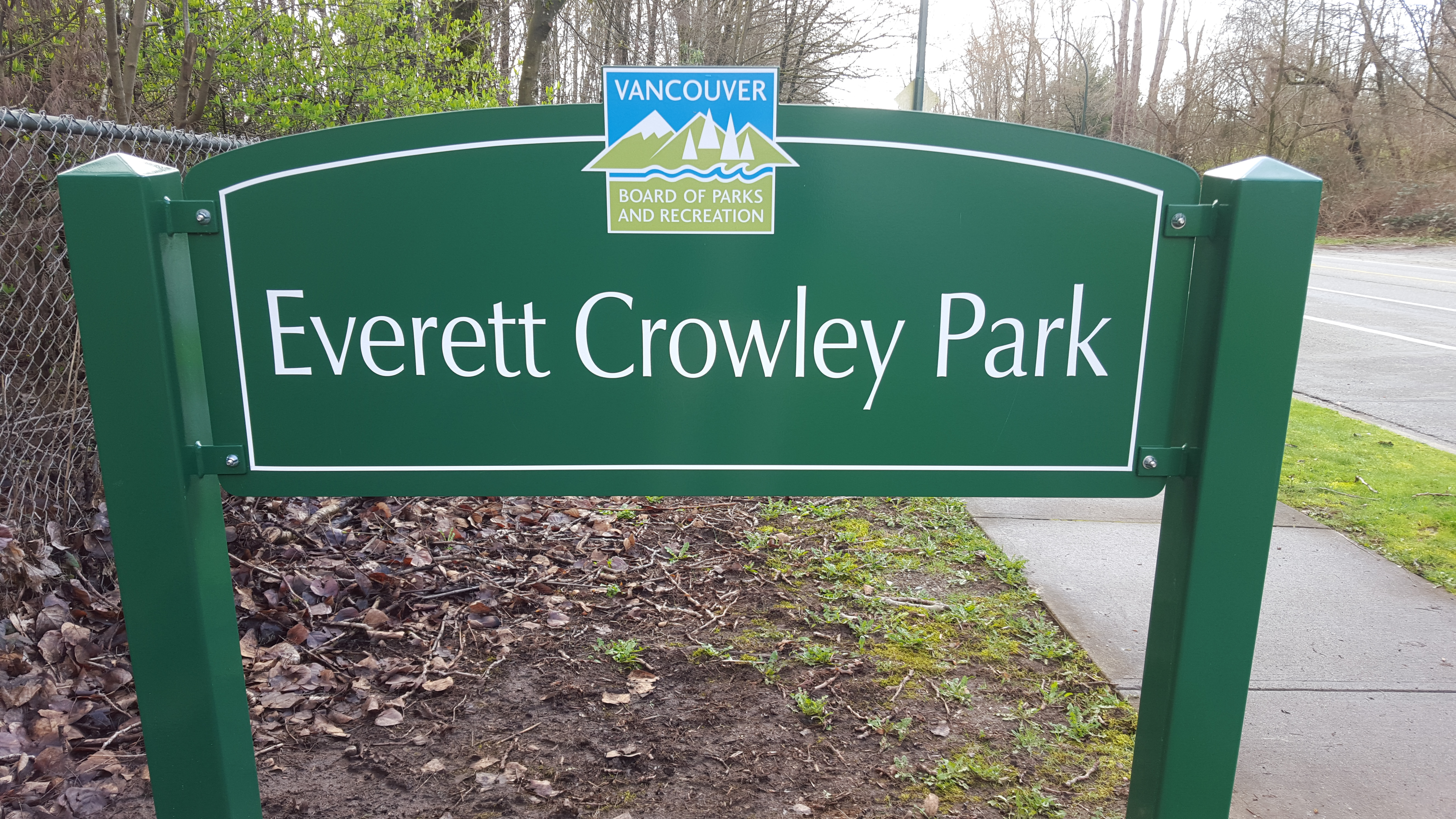 Park Sign